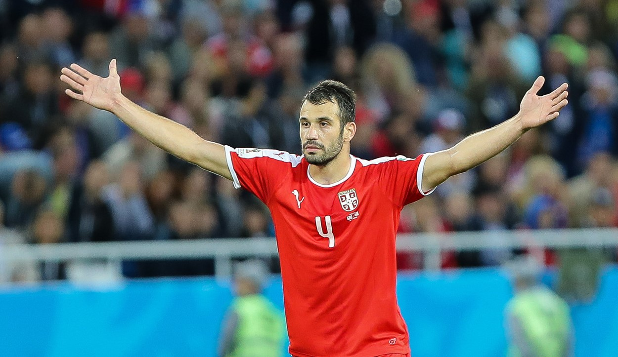 Luka Milivojević